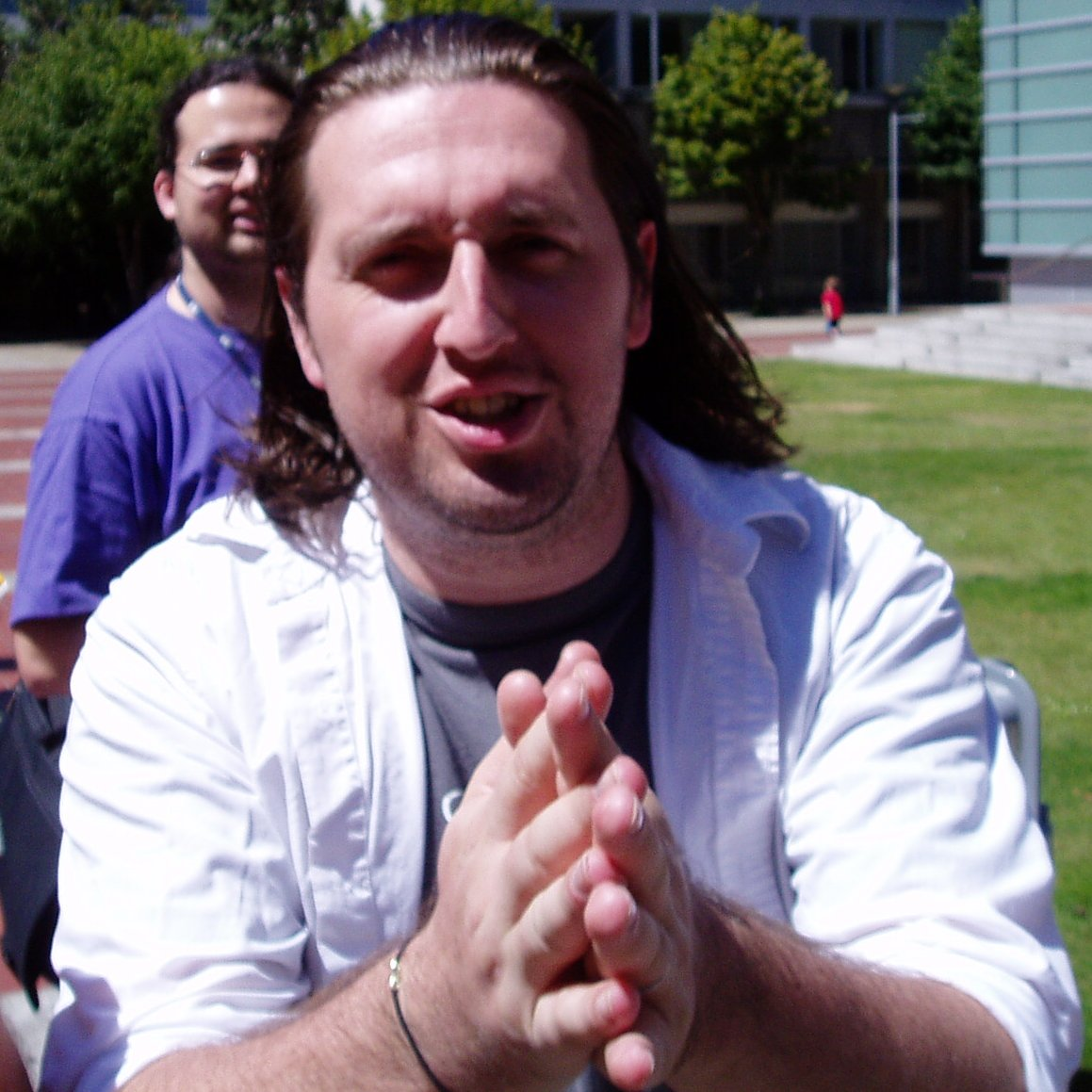 Picture of Jeff Waugh at en: in Dunedin (New Zealand) in January 2006. This picture was taken 5 minutes before Jeff's hair was cut off for Charity.